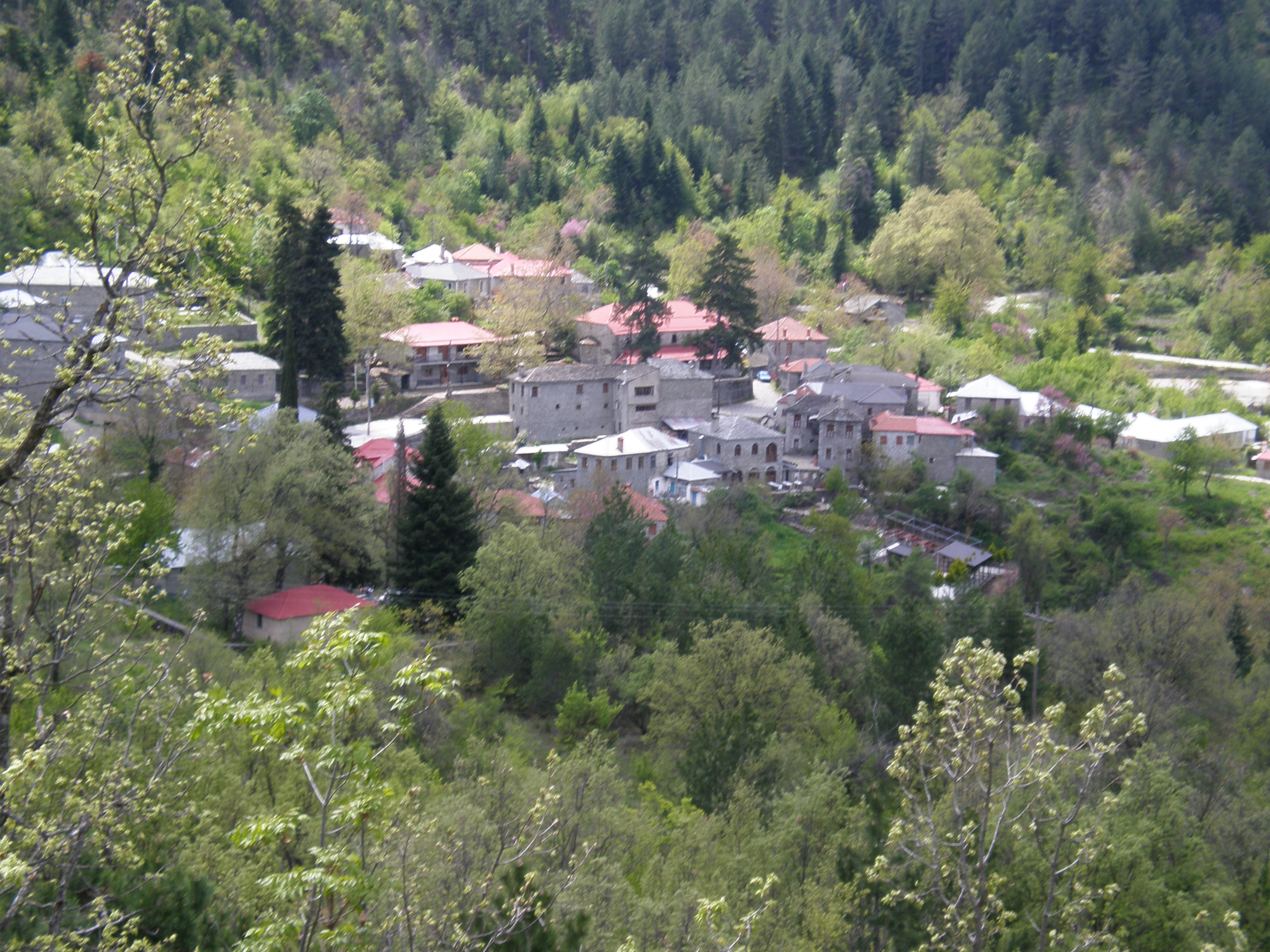 View of the village Molista from Liniko location, Ioannina Prefecture, Region of Epirus, Greece.